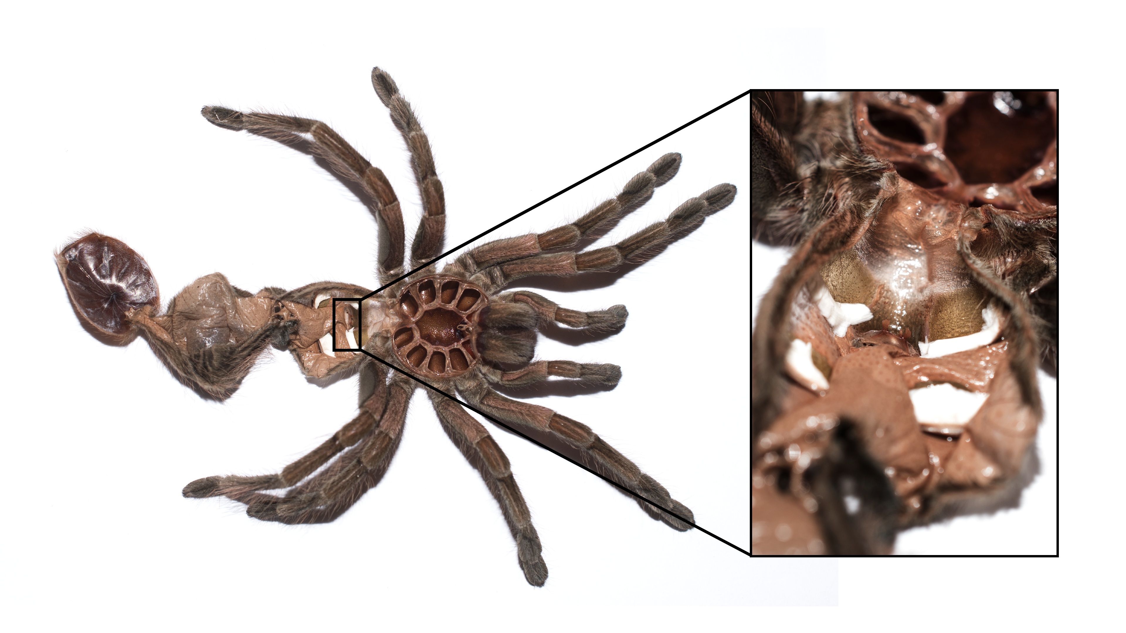 Pamphobeteus sp. machala female molt with spermatheca highlighted and location identified so others may identify the gender of their tarantula.